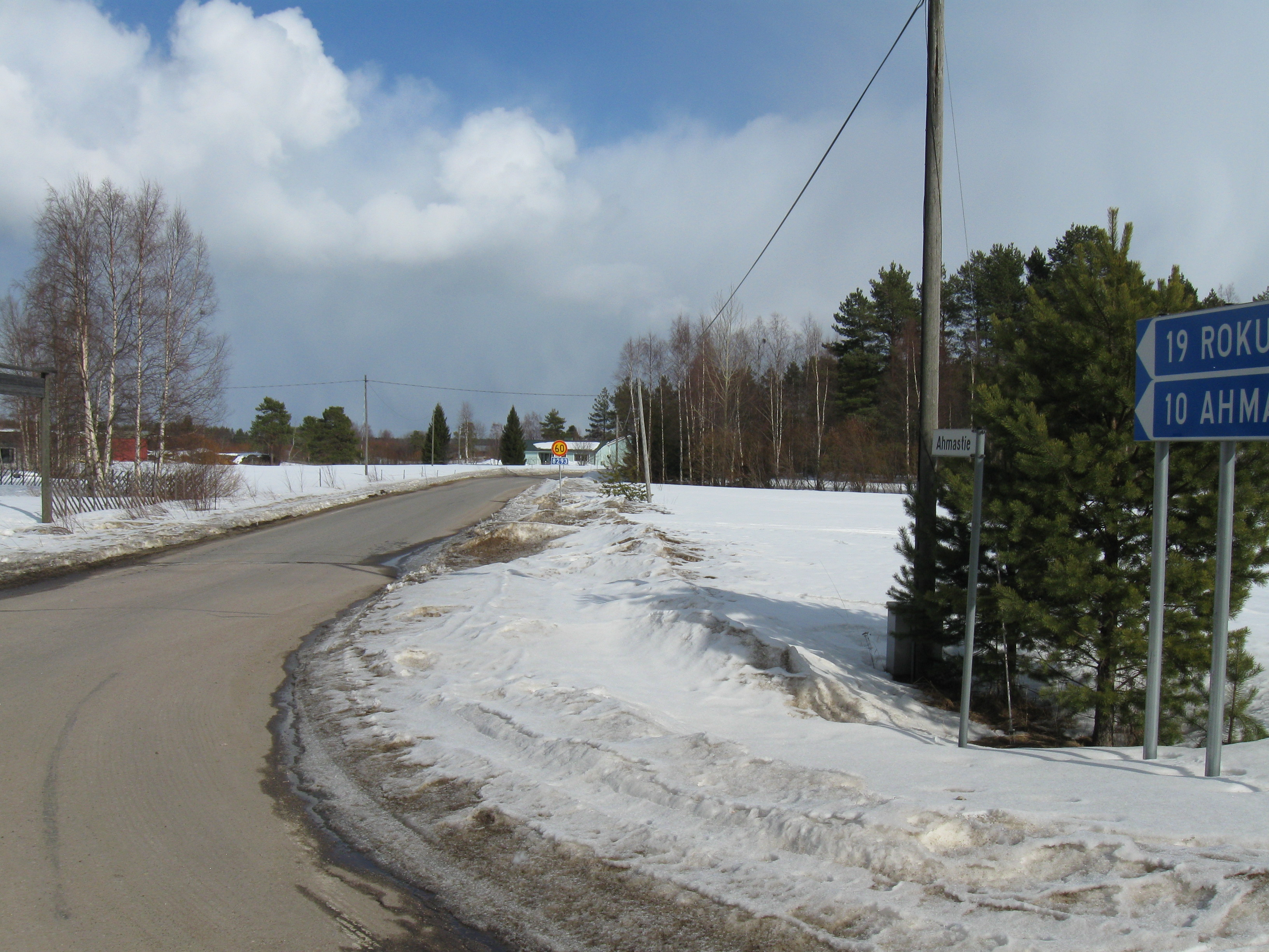 Connecting road 8293 in Kylmäläkylä, Muhos, towards Ahmas in North-East.